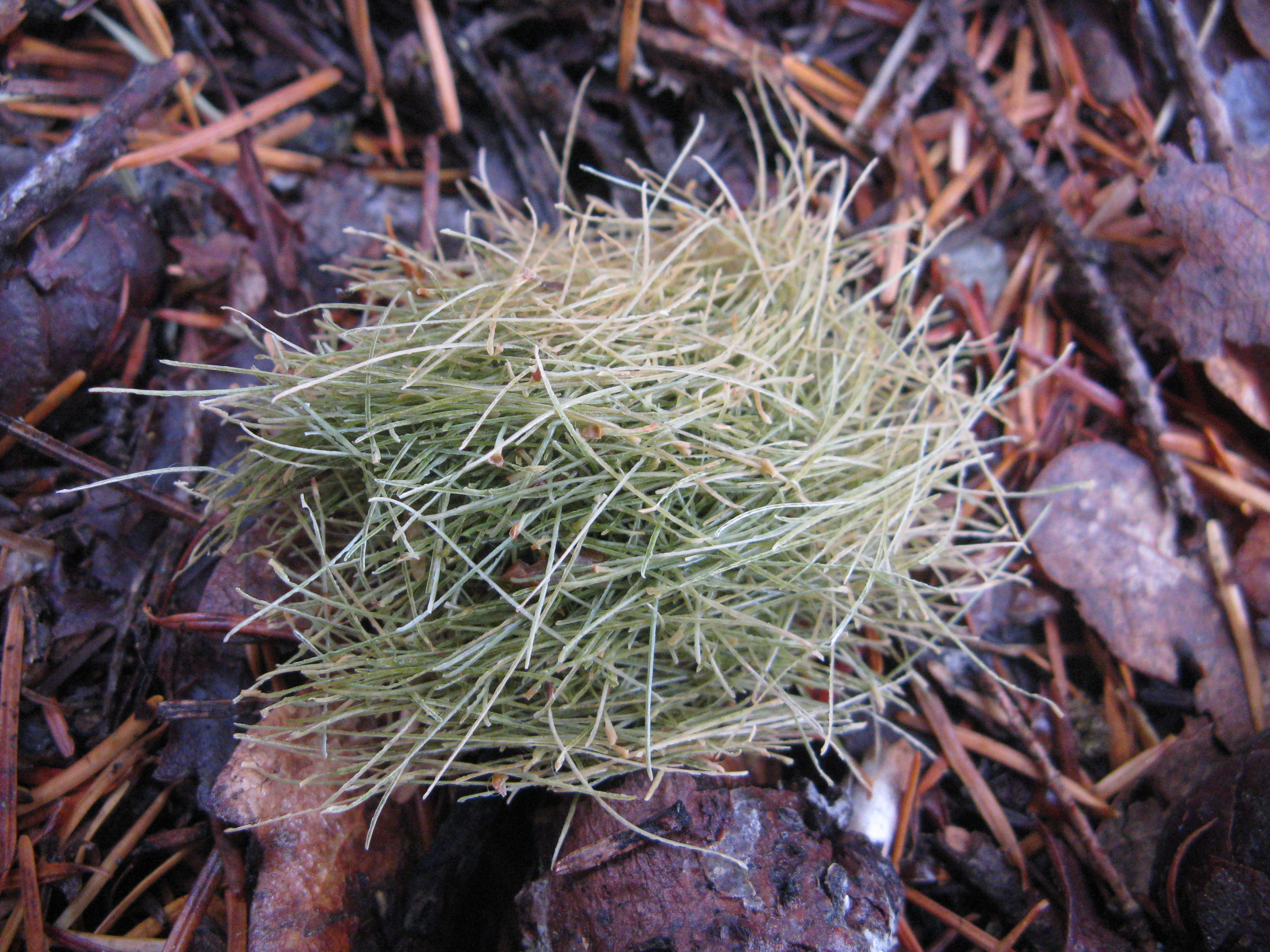 An image of the discarded resin ducts fallen from a large Douglas-fir tree, collected by a red tree vole. Collected at Cold Springs on Titlow Hill, Humboldt County, California on 28 October 2012.